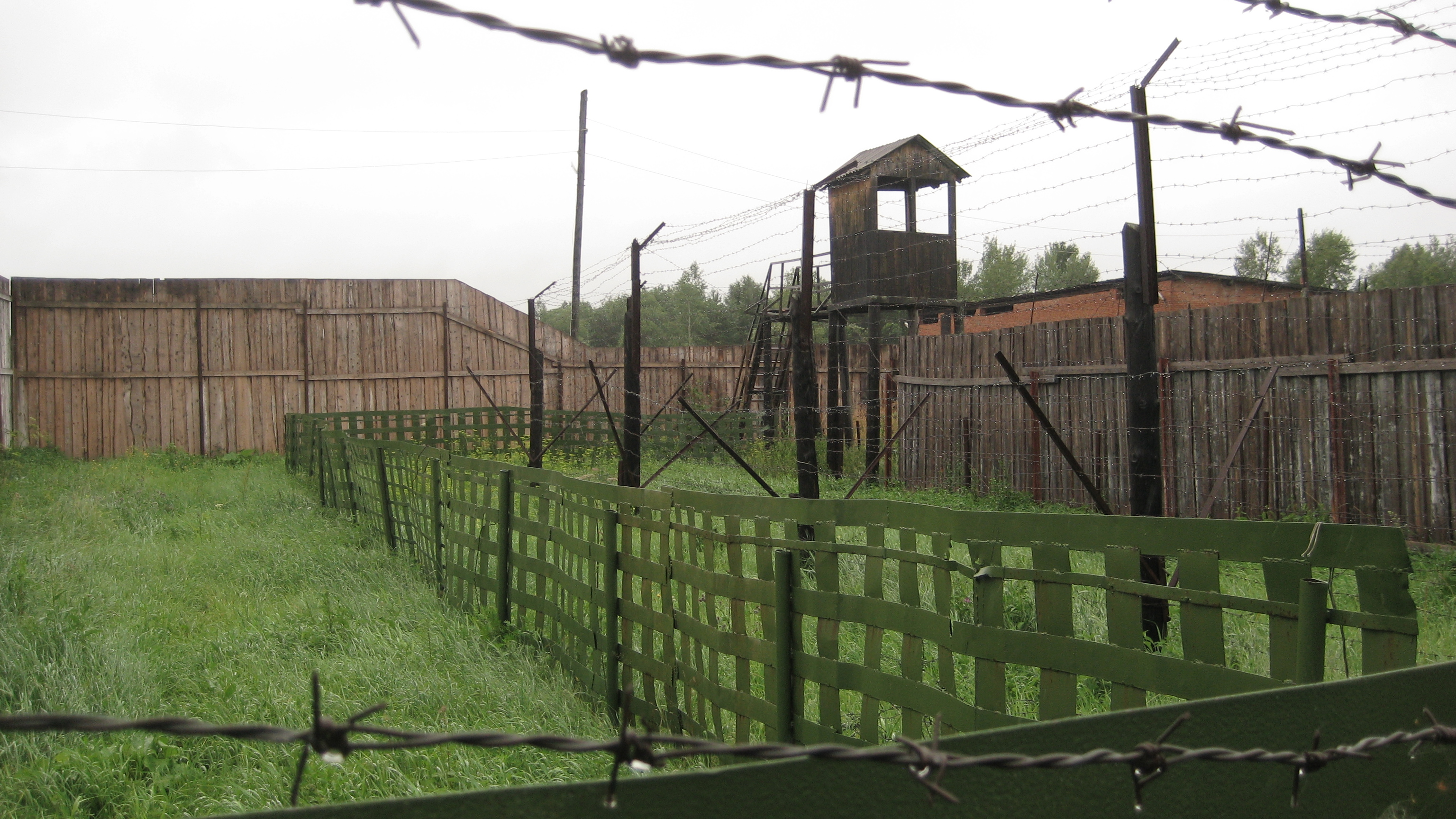 The fence and guard tower at the Soviet forced labor camp Perm-36 100 km northeast of the city of Perm in Russia, part of the prison camp system operated by the Soviet Union in the Stalin era known as the GULag. The last remaining example of a GULag labor camp, the site has been preserved as a museum and is open to the public as "The Museum of the History of Political Repression Perm-36"